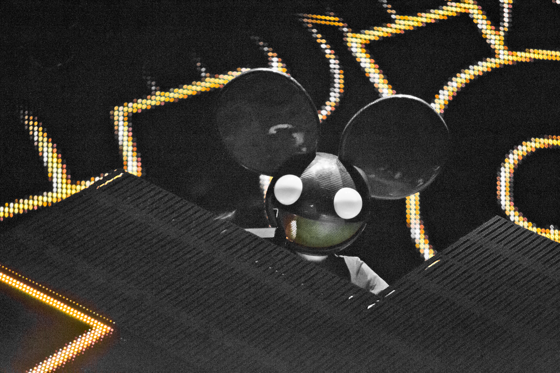 Deadmau5 in Rock in Rio Madrid 2012.